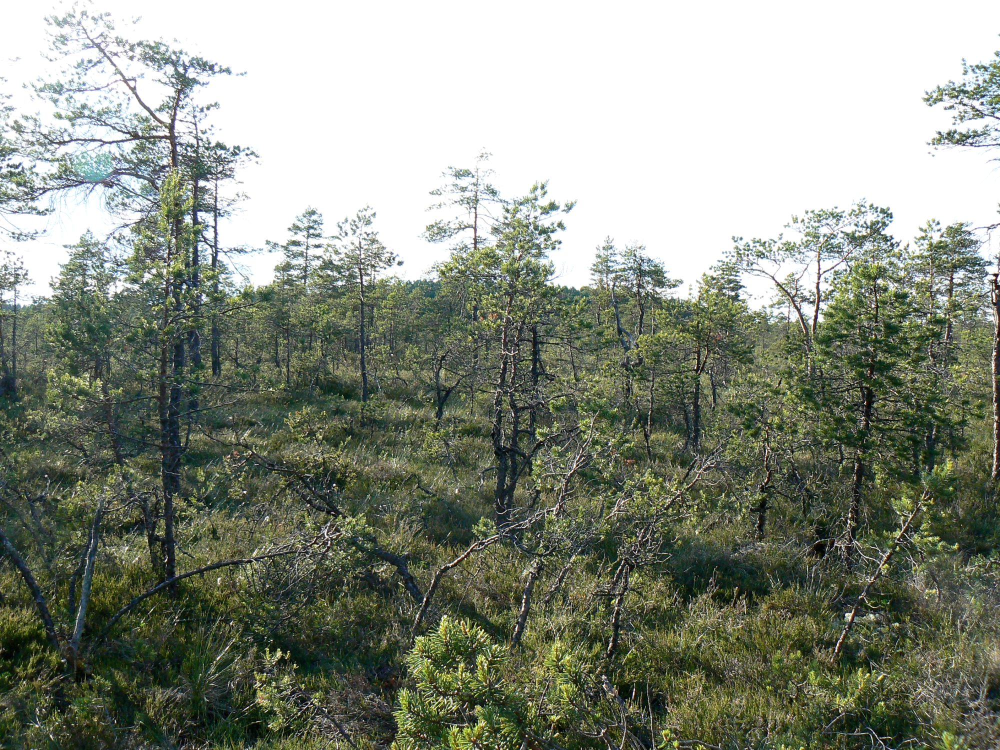 The Pidapa bog in estonia